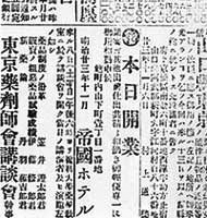 A news paper ad announcing grand opening of Imperial Hotel